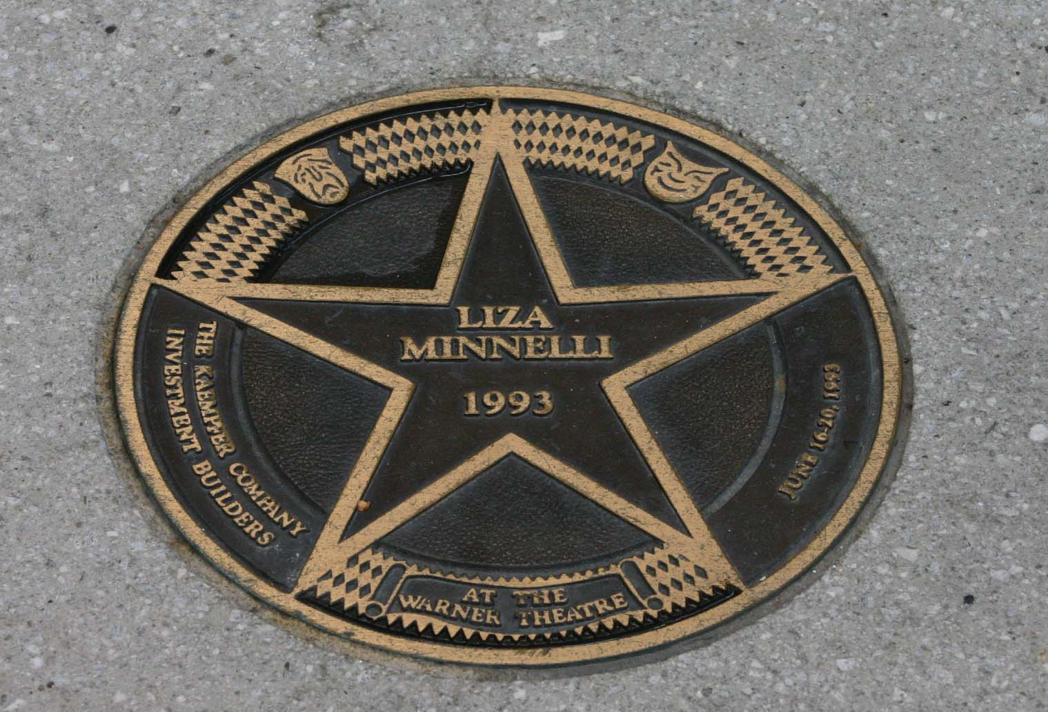 Liza Minnelli's star Outside the Warner Theatre.